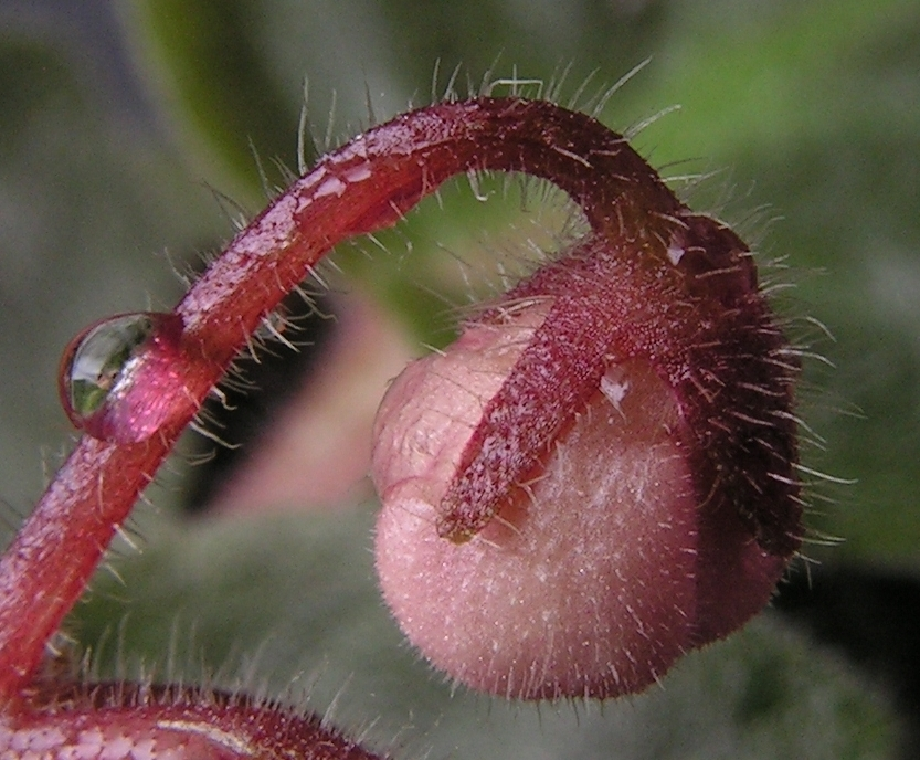 The bud of the hybrid saintpaulia